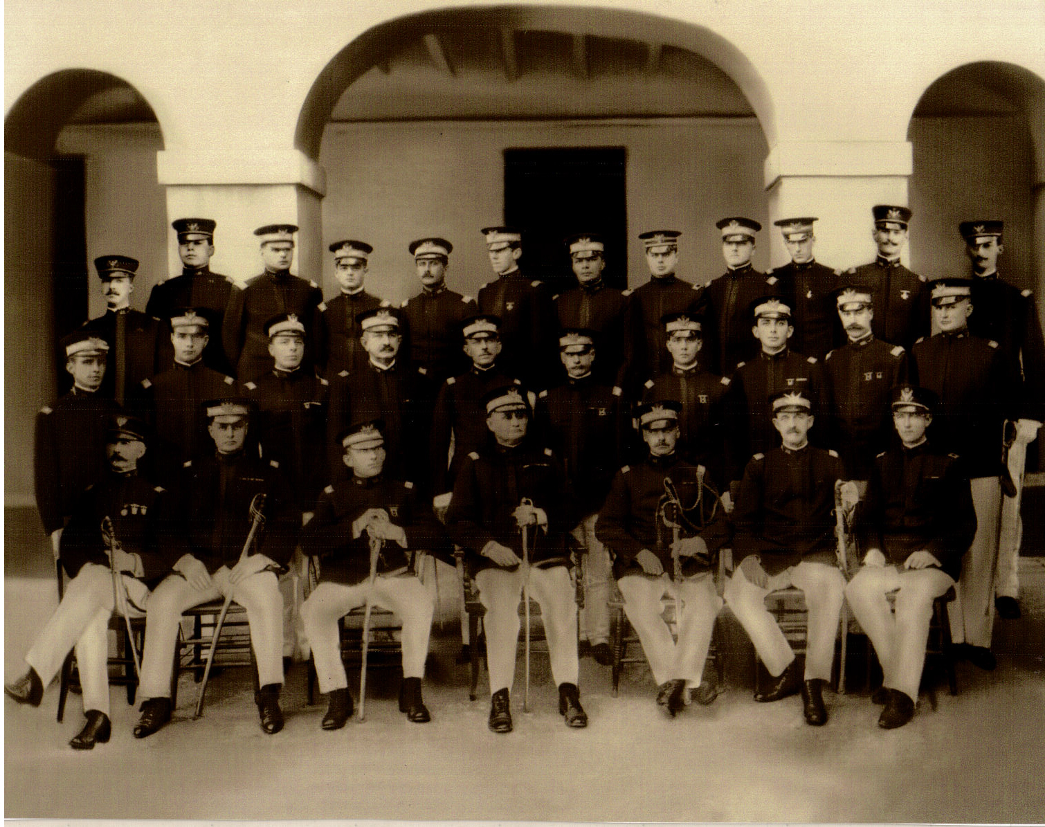 Picture of the 1906 Officer Staff of the Porto Rico Regiment now known as the 65th Infantry Regiment. It should be noted that on January 15, 1899, the military government changed the name of Puerto Rico to "Porto Rico". On 30 June 1901, the "Porto Rico Provisional Regiment of Infantry" was organized. On May 17, 1932, U.S. Congress changed the name back to "Puerto Rico".